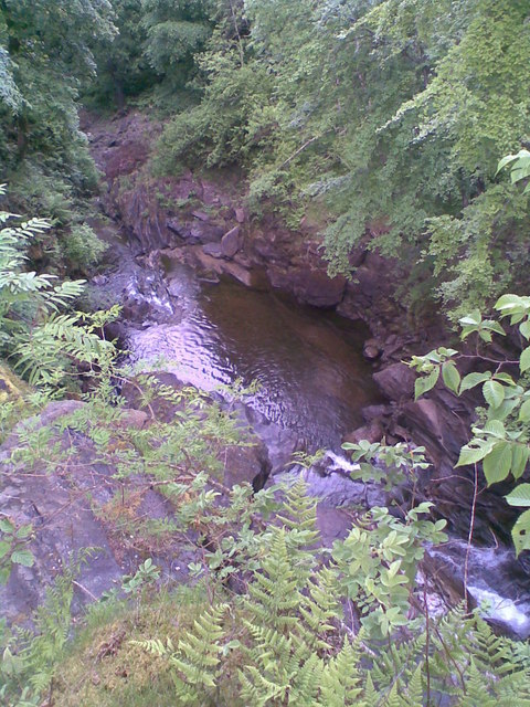 What a drop The Cauldron of the falls at Edinample. Taken on a June afternoon